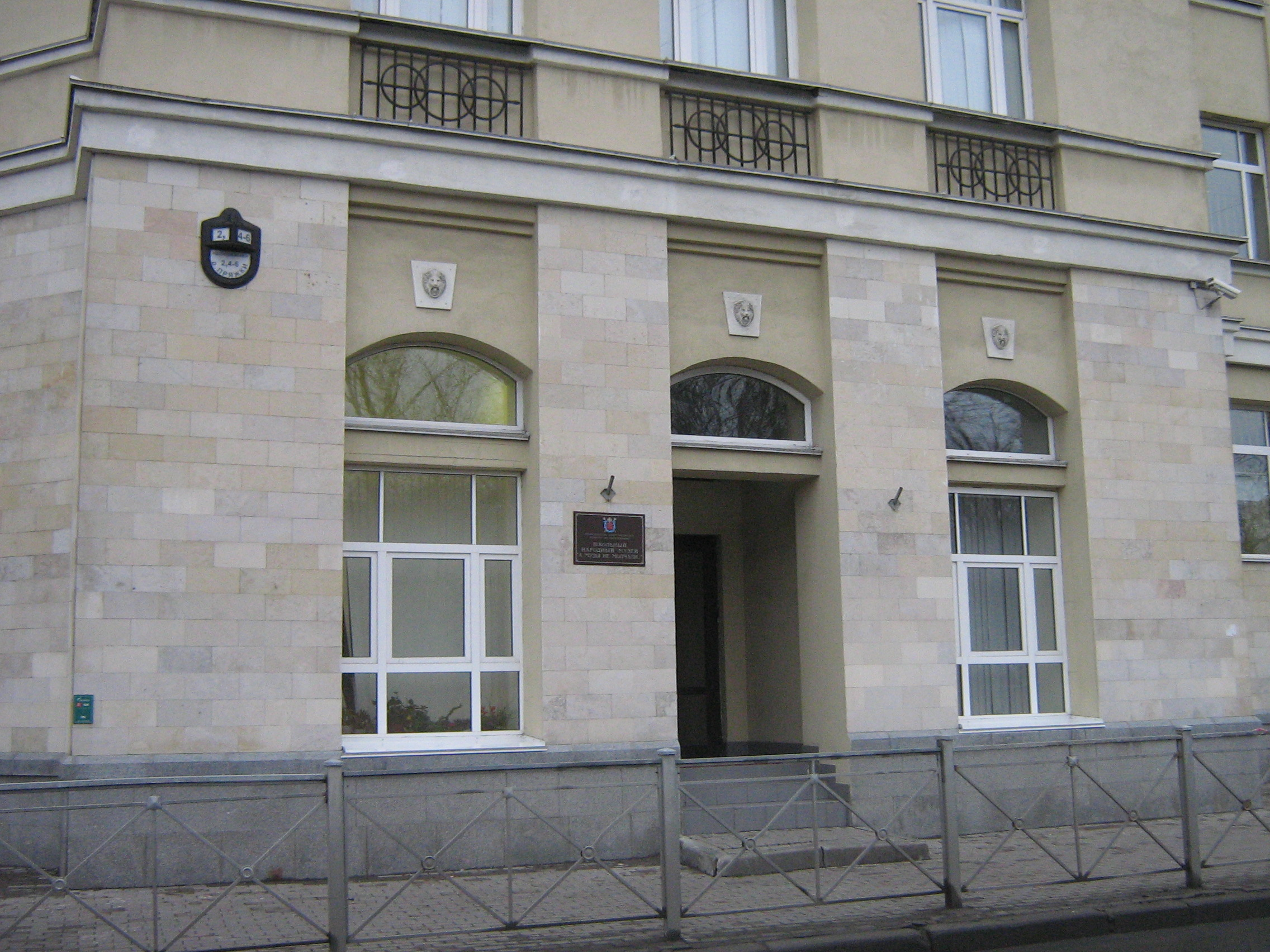 Saint Petersburg (Russia), Admiralteysky District